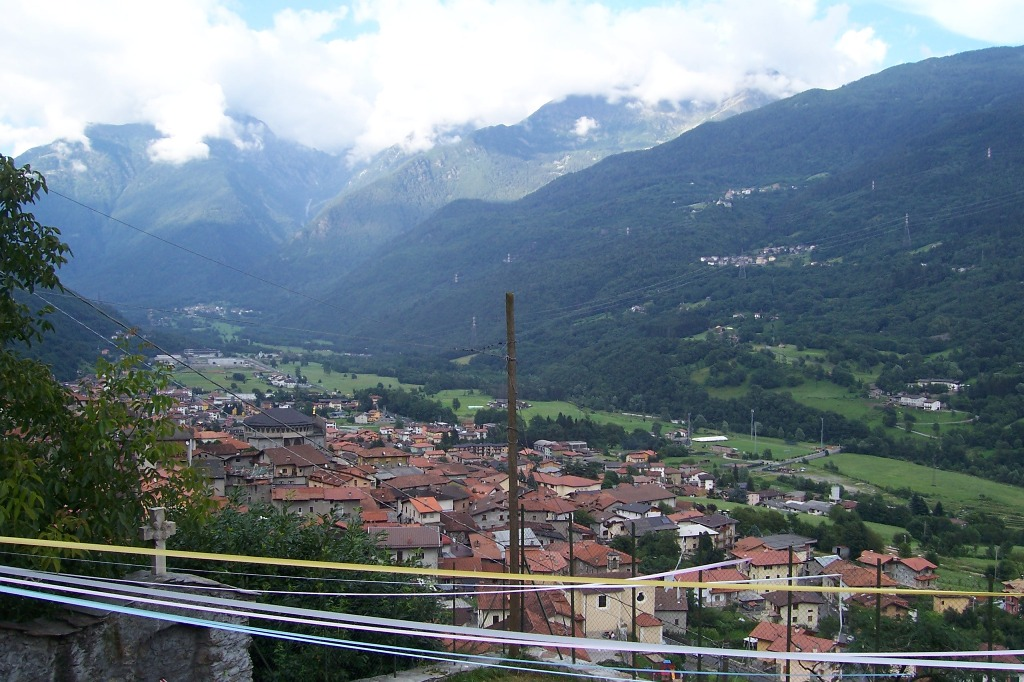 Fresco, Malonno, Val Camonica